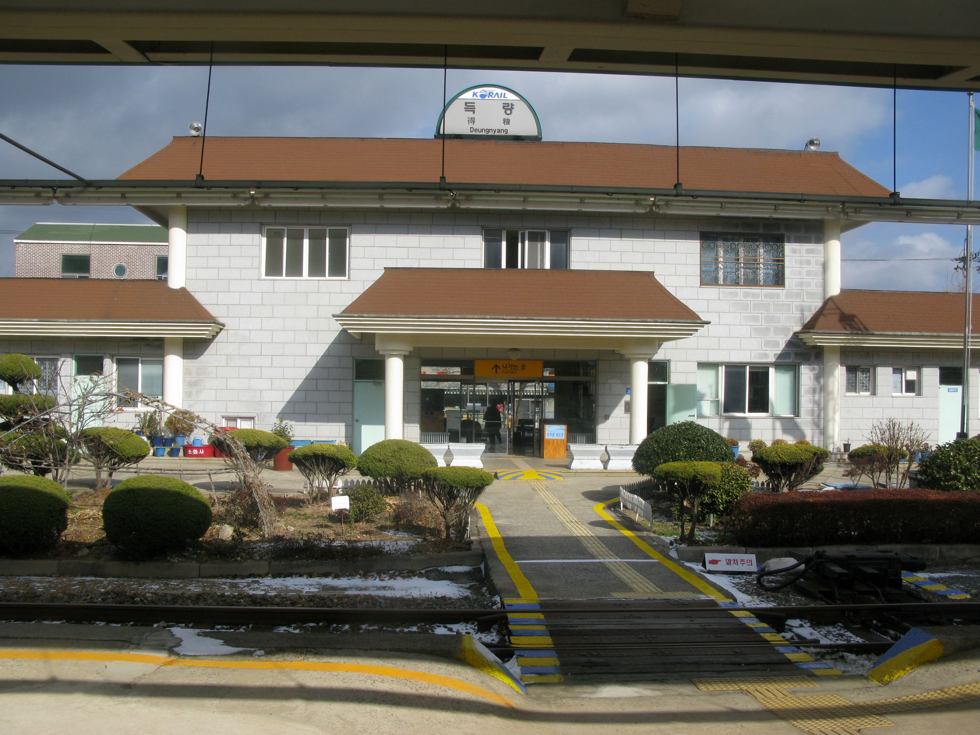 Gyeongjeon Line Deungnyang Station